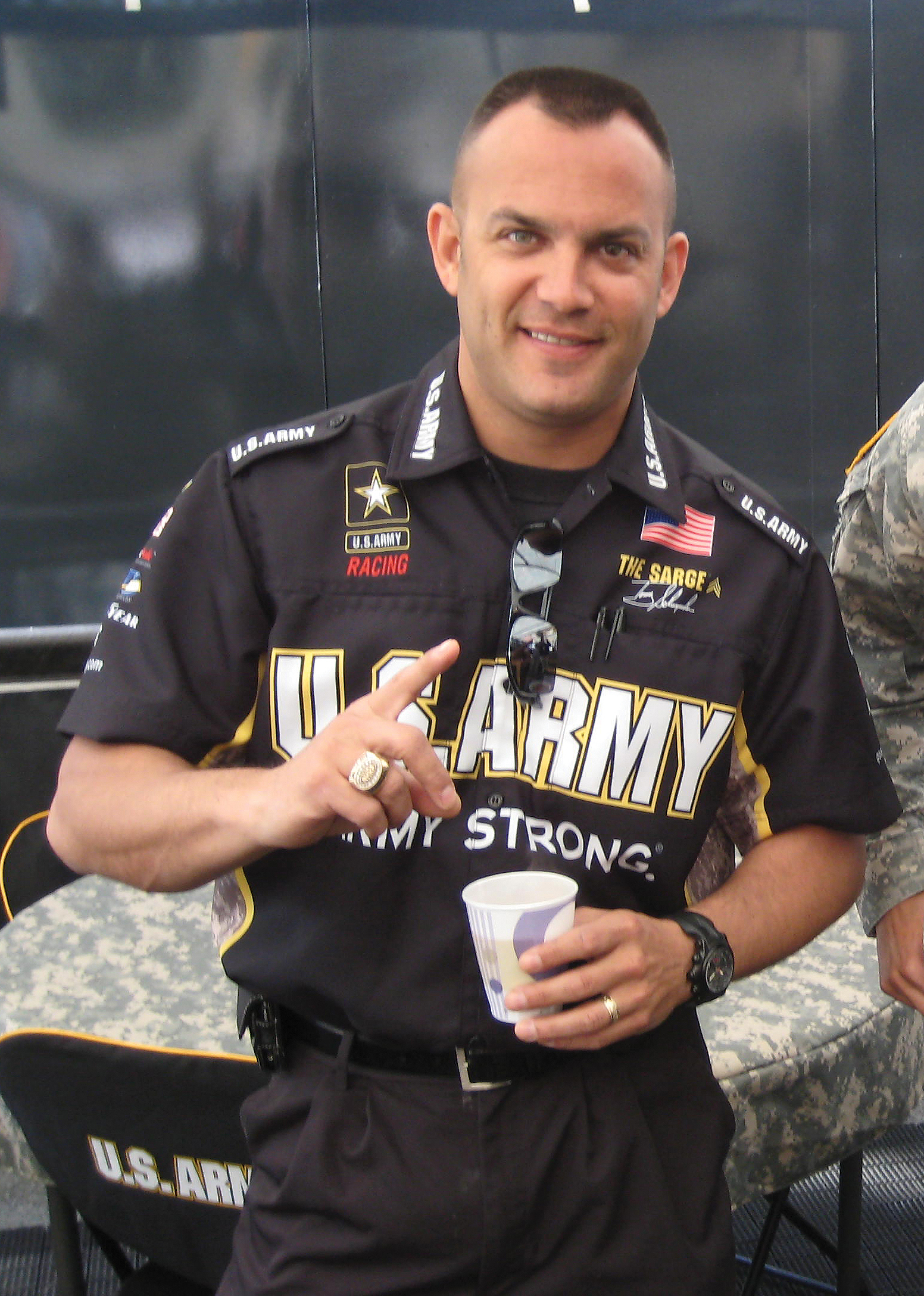 U.S. Army driver, and six-time World Champion, Tony Schumacher.